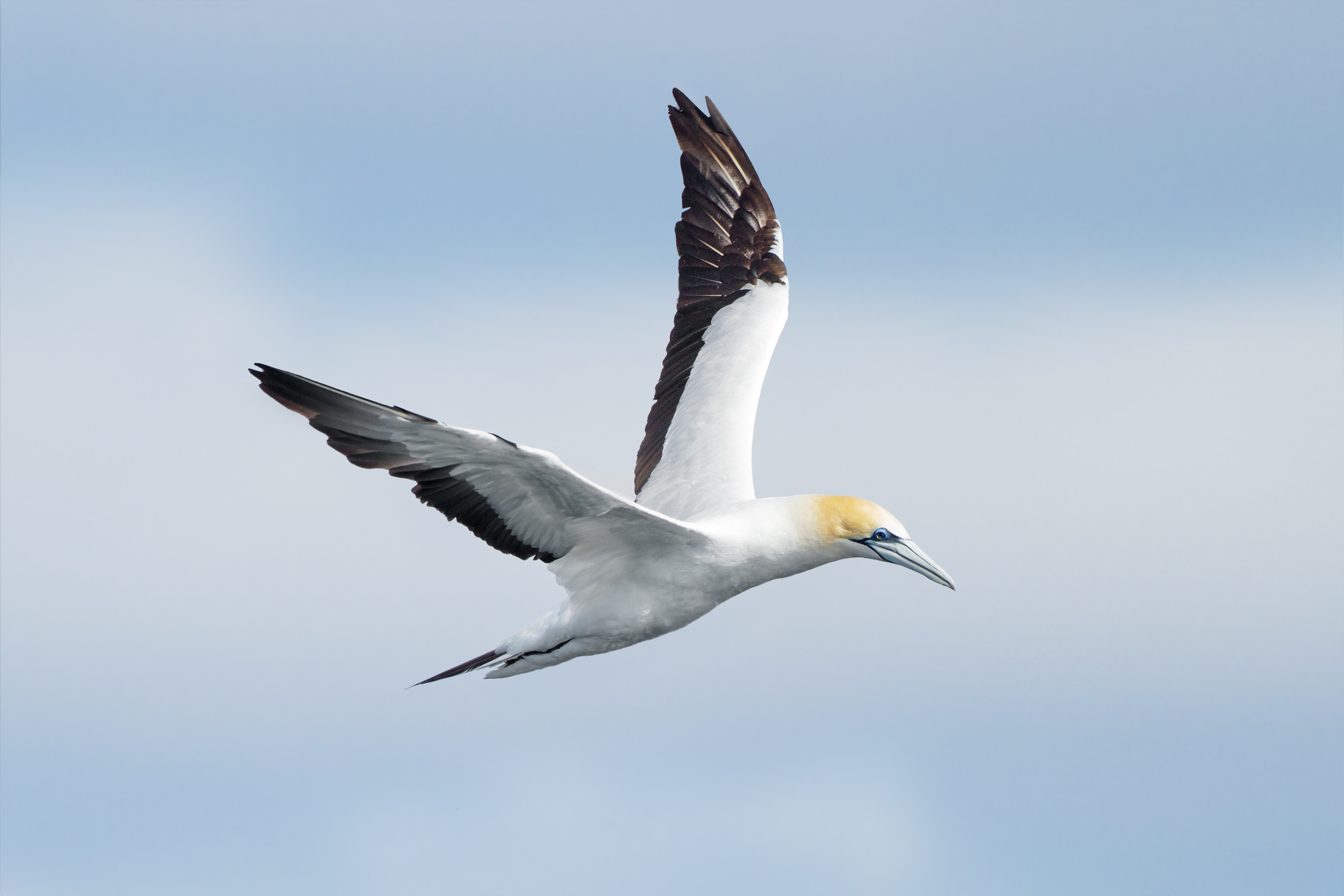 Australasian Gannet (Morus serrator)